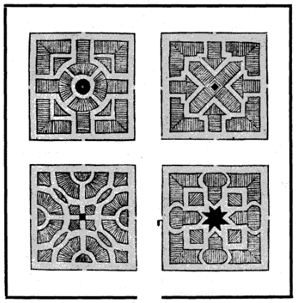 From the book Horticultura Danica 1647, by Hans Raszmussøn Block. - Permalink to page about the book at The Royal Library, Denmark